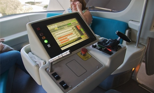 Disney World's monoral Mark VI new driving controls that were installed in 2007, replacing the tram's original controls.